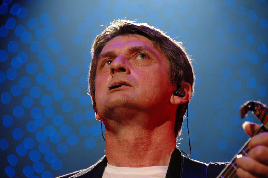 Picture of Mike Oldfield. Text on the photo provides information: "Foto: Alexander Schweigert